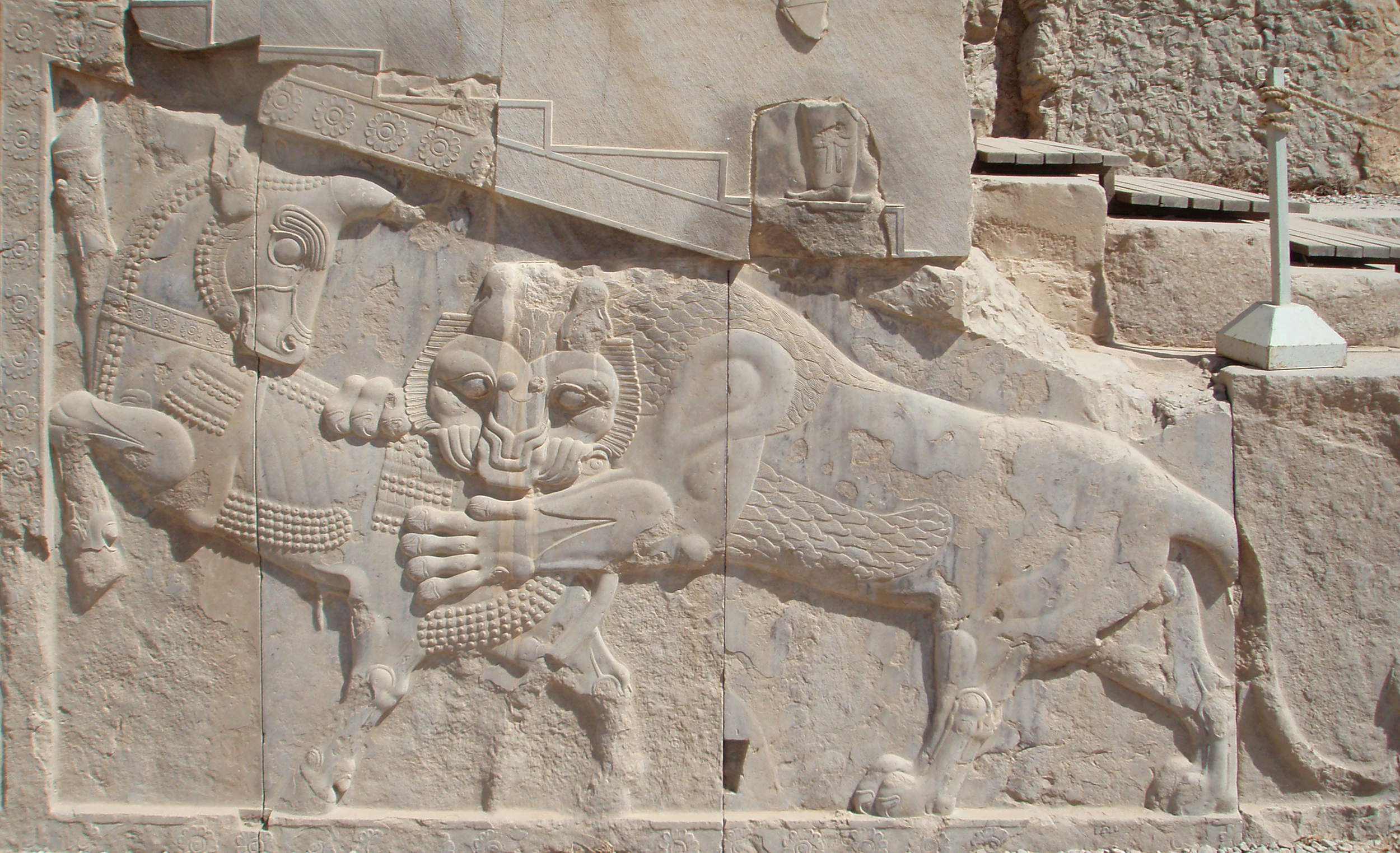 Bas-relief the lion-bull combat in Persepolis - a symbol which has been variously interpreted, including as the symbol of the Nowruz (the Persian New Year's Day) - in day of a spring equinox power of eternally fighting bull (personifying the Earth), and a lion (personifying the Sun), are equal.